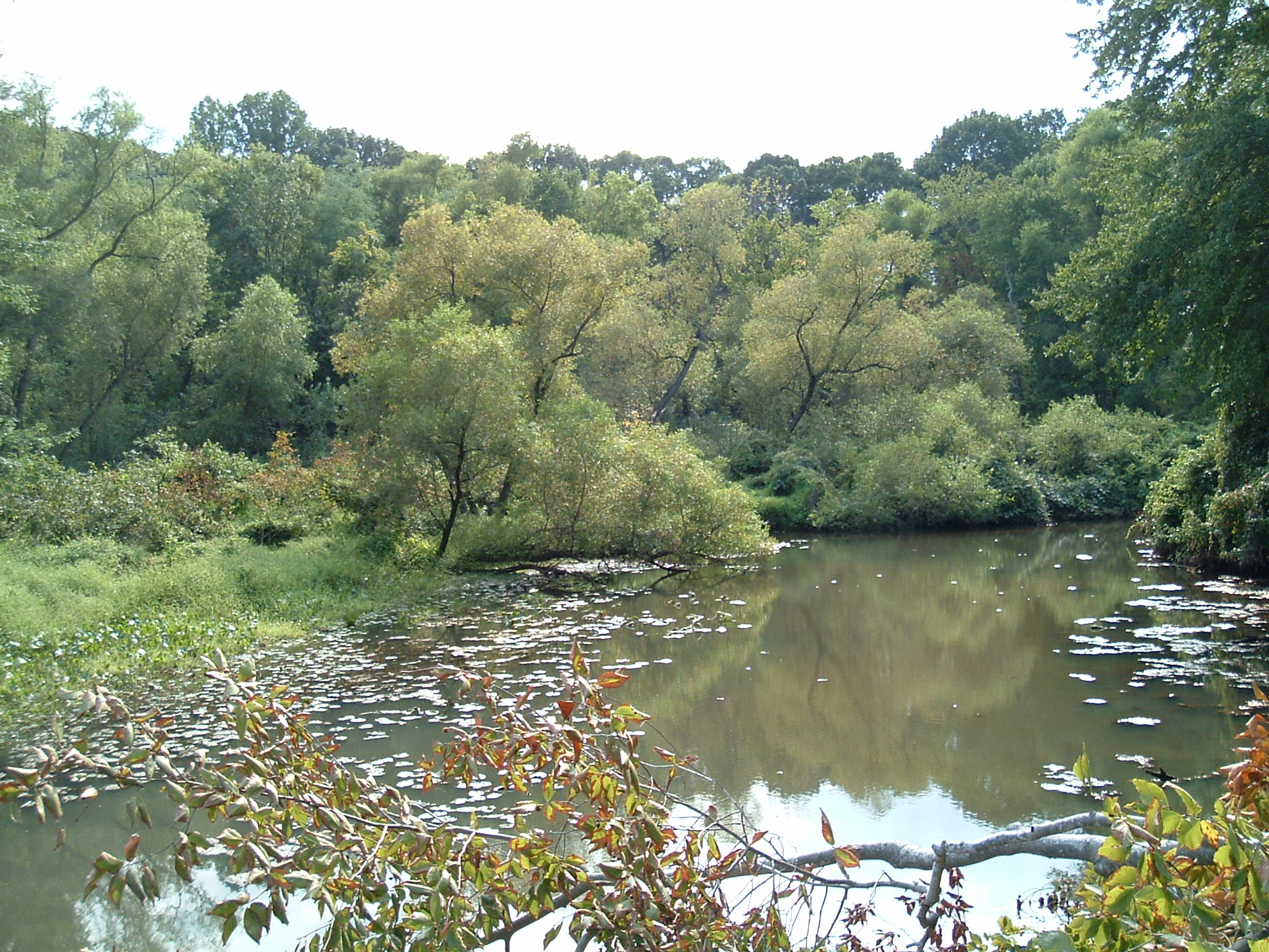 North Branch Big Timber Creek, Stratford, Camden County, New Jersey river stream